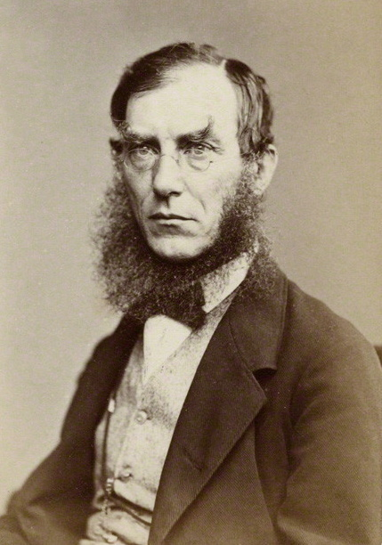 Sir Joseph Dalton Hooker, 1860s